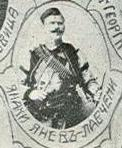 Portrait of IMARO member Yanaki Nakev from Lavcheni